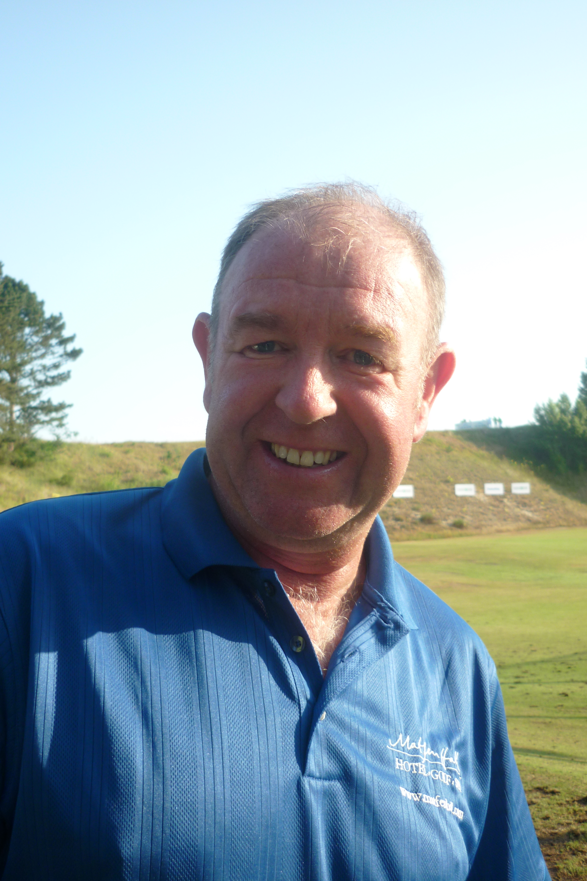 John Harrison at the Van Lanschot Senior Open